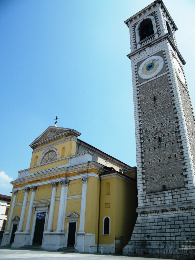 Church of St Faustin and Jovita and Civic Tower. Chiari.